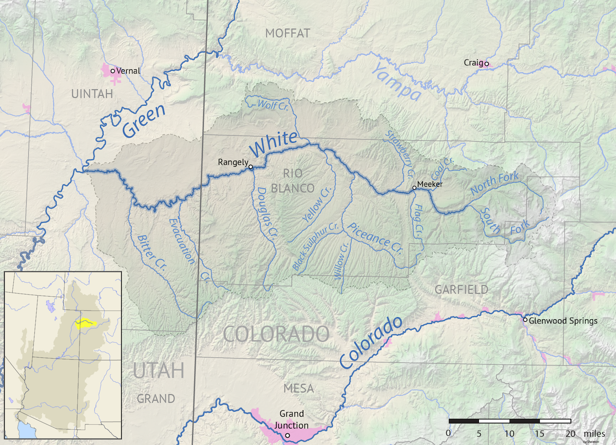 Map of the White River drainage basin in Colorado and Utah, USA. Made using USGS data.